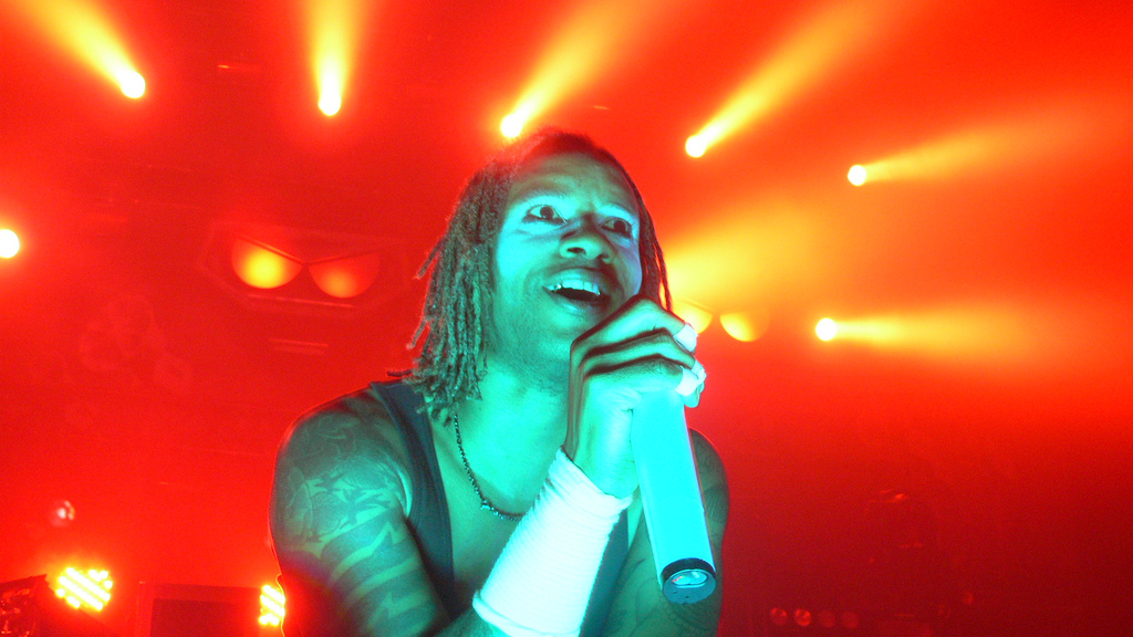 Maxim Reality from The Prodigy on their "Invaders Must Die" German tour 2009.